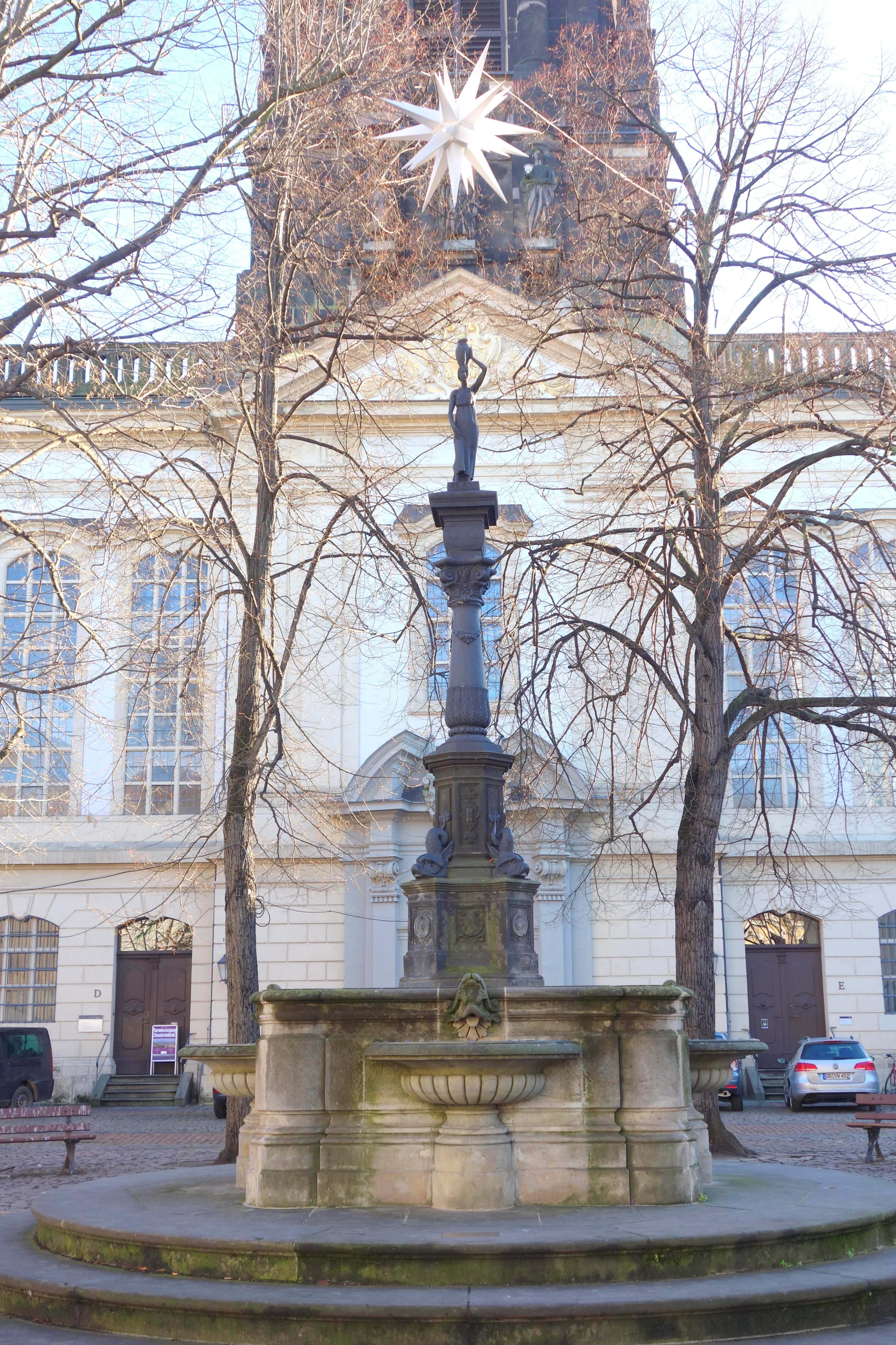 Rebecca-Brunnen - Dresden, Germany.